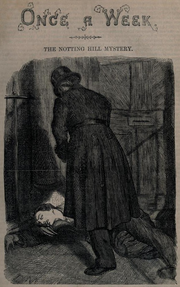 Cover art for section V (of VIII) of "The Notting Hill Mystery", from Once a Week magazine